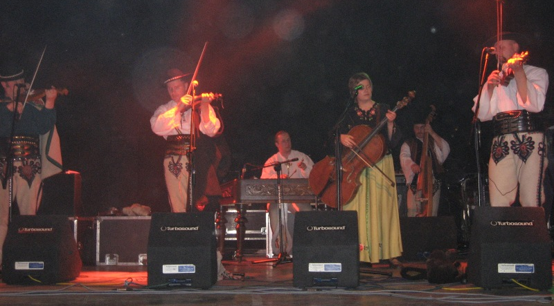 Trebunie Tutki in concert